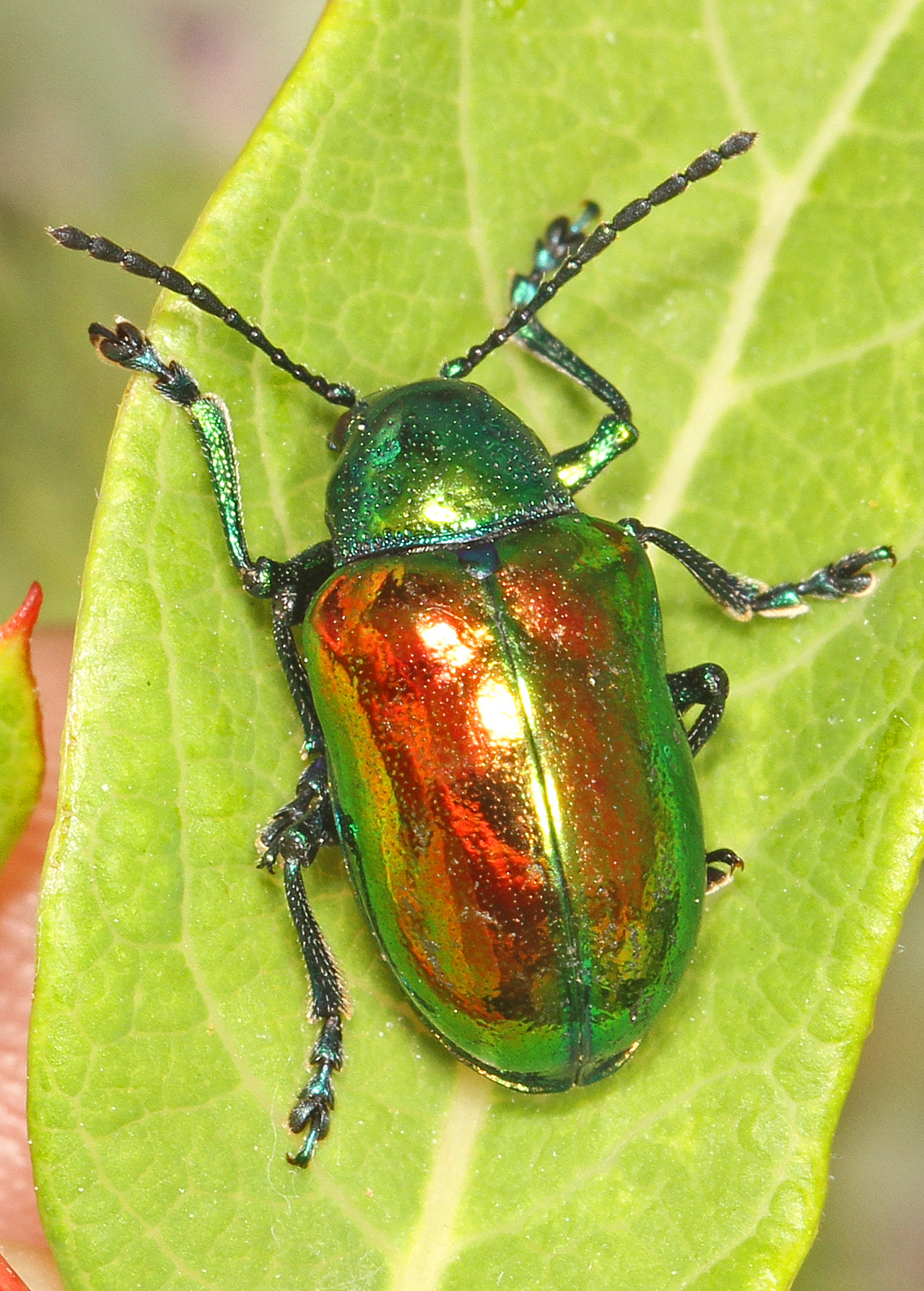 Dogbane Beetle - Chrysochus auratus, Meadowwood Farm SRMA, Mason Neck, Virginia. Is it green or is it bronze? It depends on from which direction the light is coming, but under any circumstance, this is a gorgeous beetle.